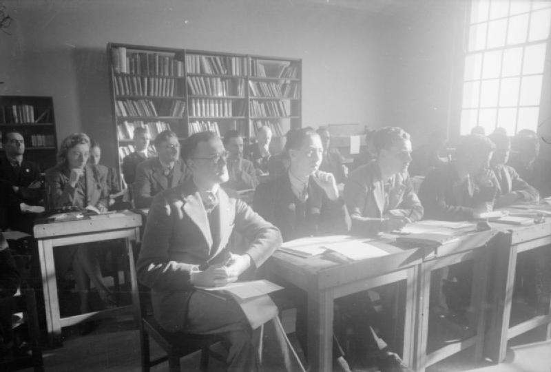 From the Services To Schoolmastering- Re-training at Goldsmith's College, London University, Nottingham, England, 1944 A class of ex-servicemen training to be teachers at Goldsmiths College (based at Nottingham University since the outbreak of war) listen to a lecture on English composition. The class is led by Dr Lewis, the Vice-Principal of Goldsmiths College (not pictured).